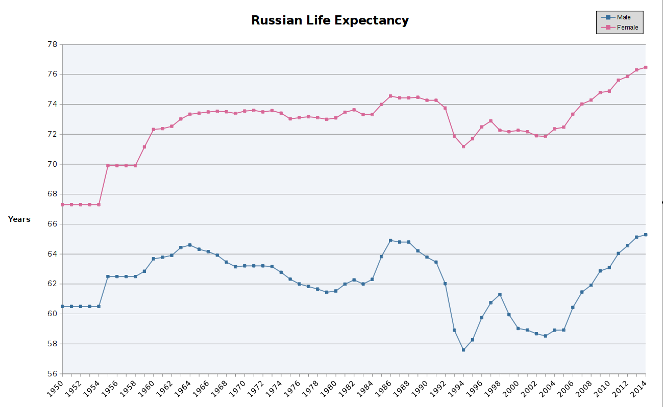 Russian male and female life expectancy from 1950-2011. Data source:[1]Rosstat